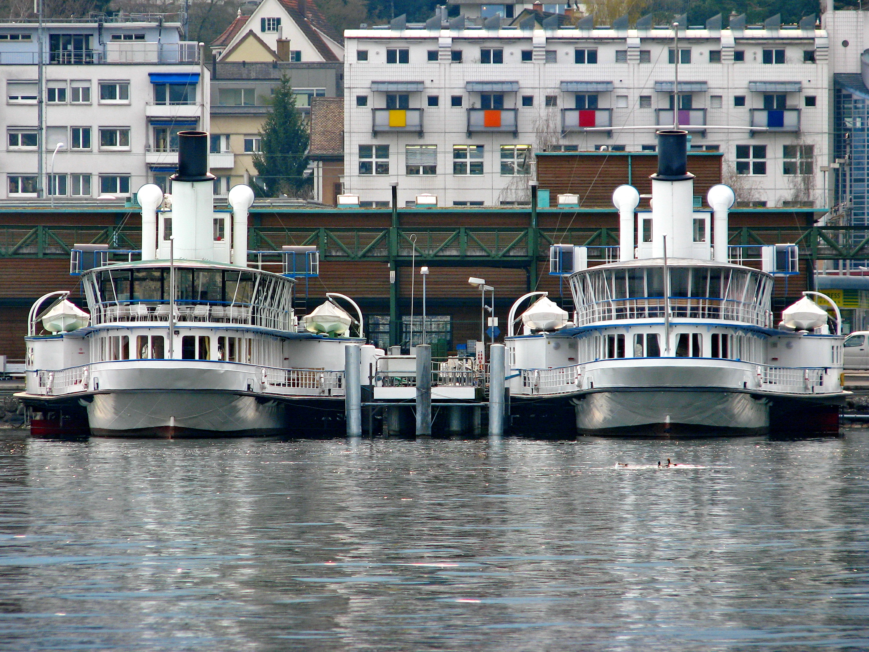 Zürichsee-Schifffahrtsgesellschaft (ZSG) paddle steamers «Stadt Zürich» (to the left) and «Stadt Rapperswil» on Zürichsee in ZSG's shipyard in Zürich-Wollishofen (appartment buildings in the background).